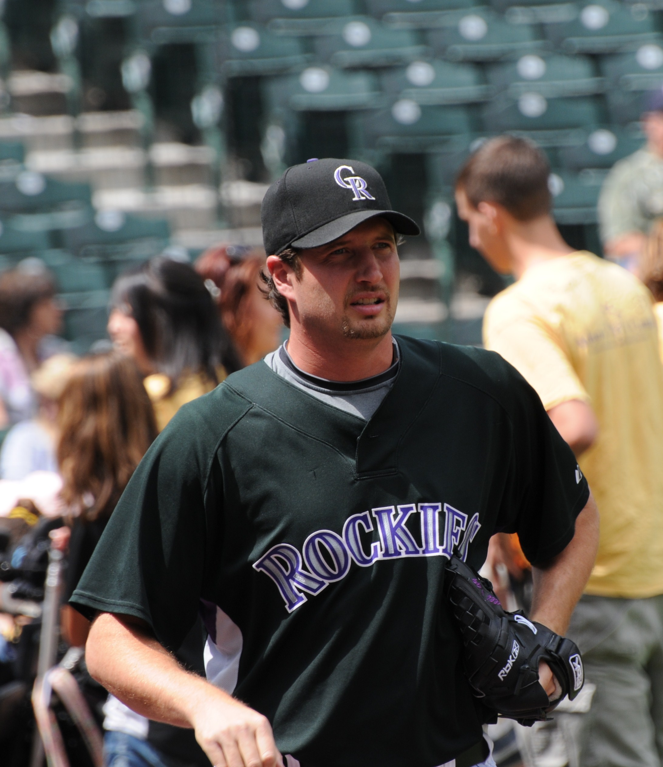 Description own work DateSourceI created this work entirely by myself.AuthorOnetwo1 (talk) 16:18, 8 August 2008 . . Onetwo1 . . 2,183×2,523 (706 KB) own work